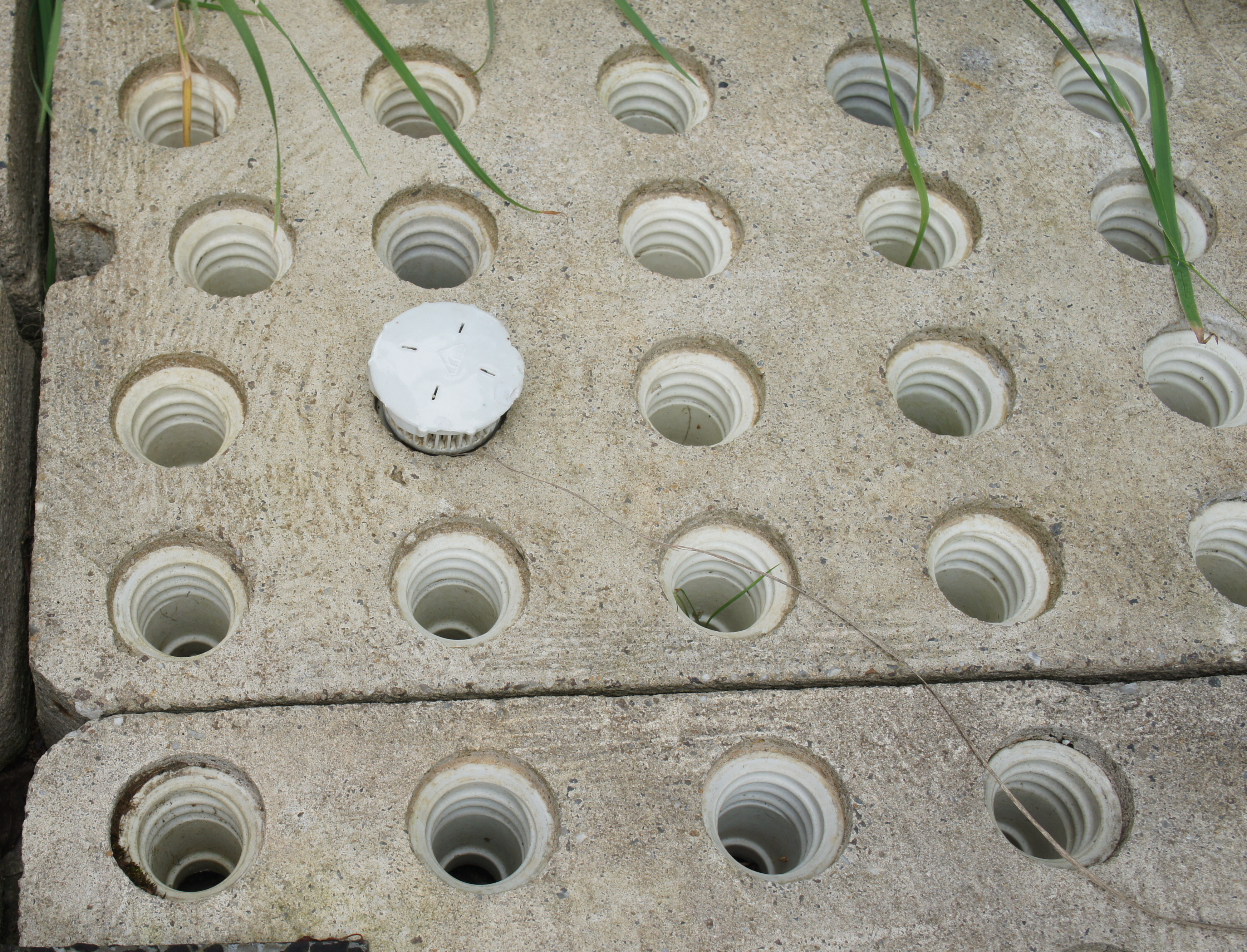 Former waterworks in Bautzen Strehla, built in 1893, now a technical monument. Concrete filter with filter insert